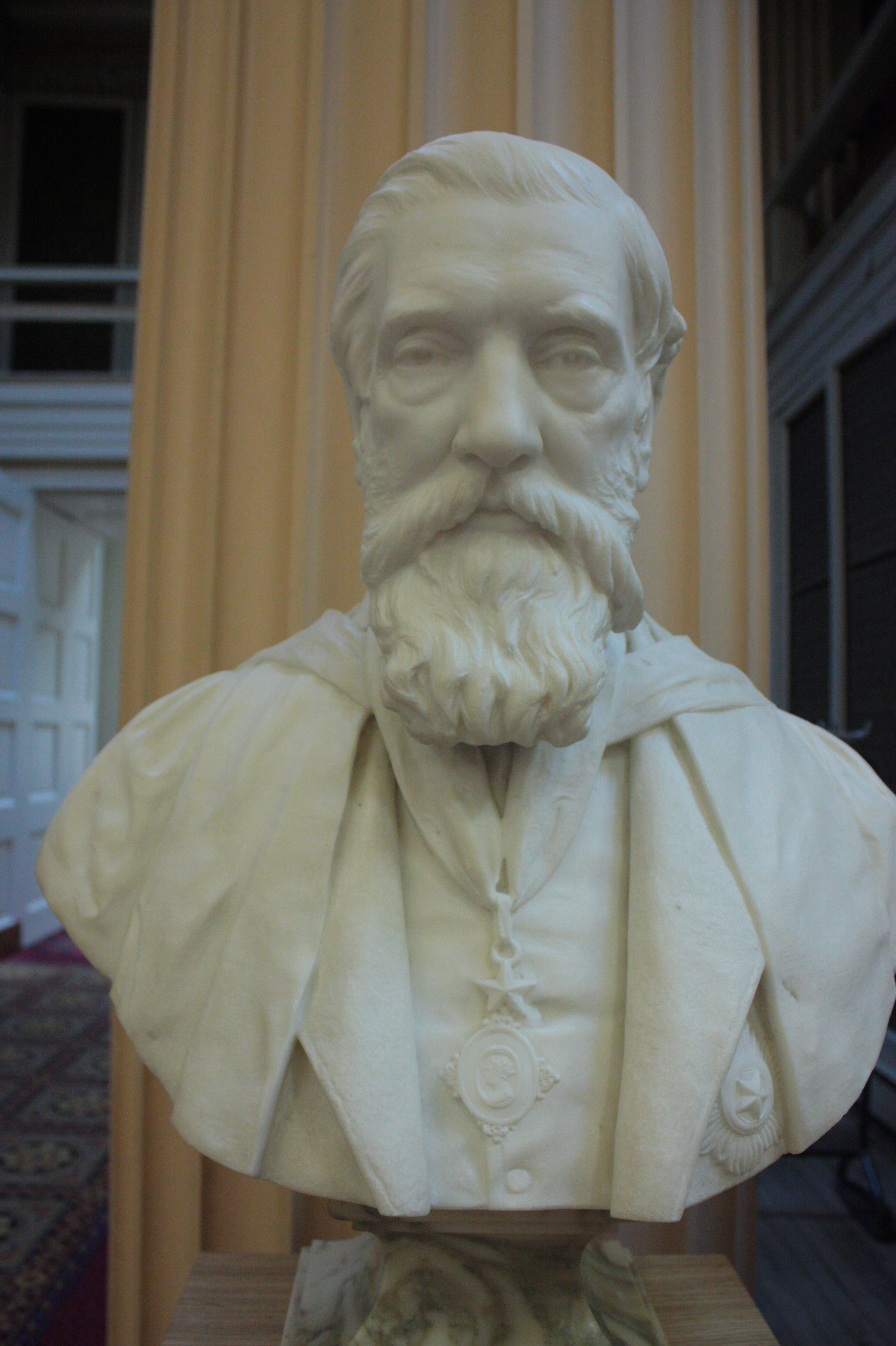 Sir William Muir by Charles McBride